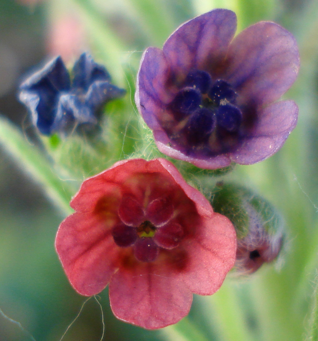 Cynoglossum officinale (Unterfranken, Germany)